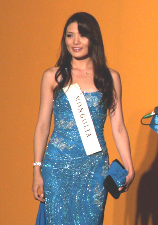 Miss Mongolia 2008 Anun Chinbat during Miss World 08